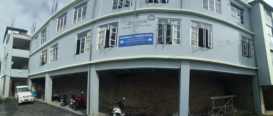 J Thankima College Admin Building